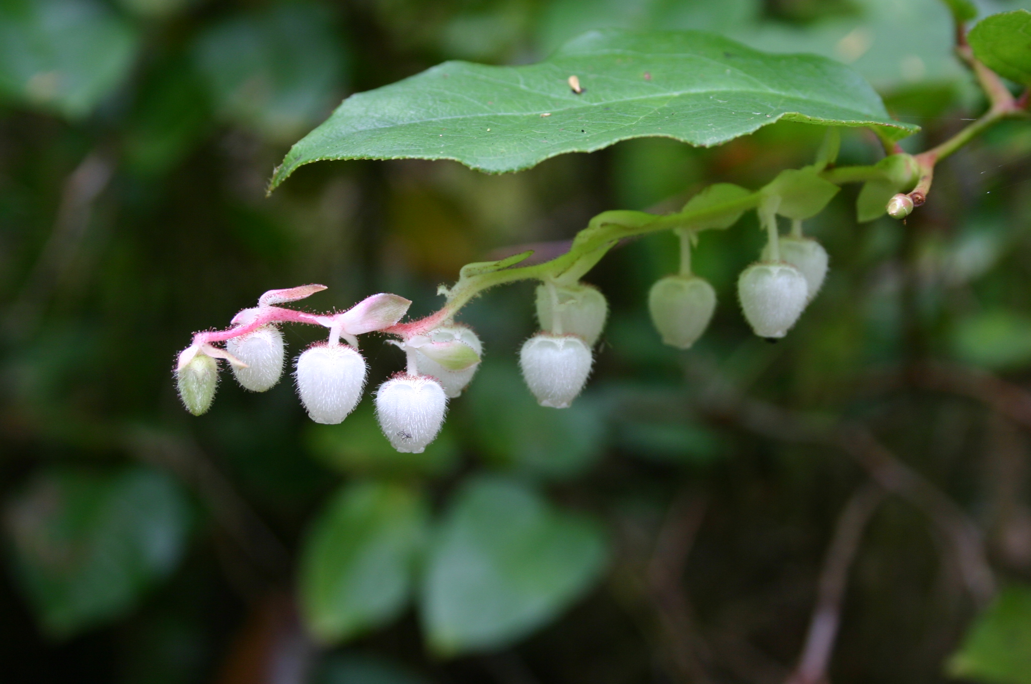 Gaultheria shallon. This picture shows a series of pink bell-shaped flowers on red, hairy twigs sheltered under one of its leaves.